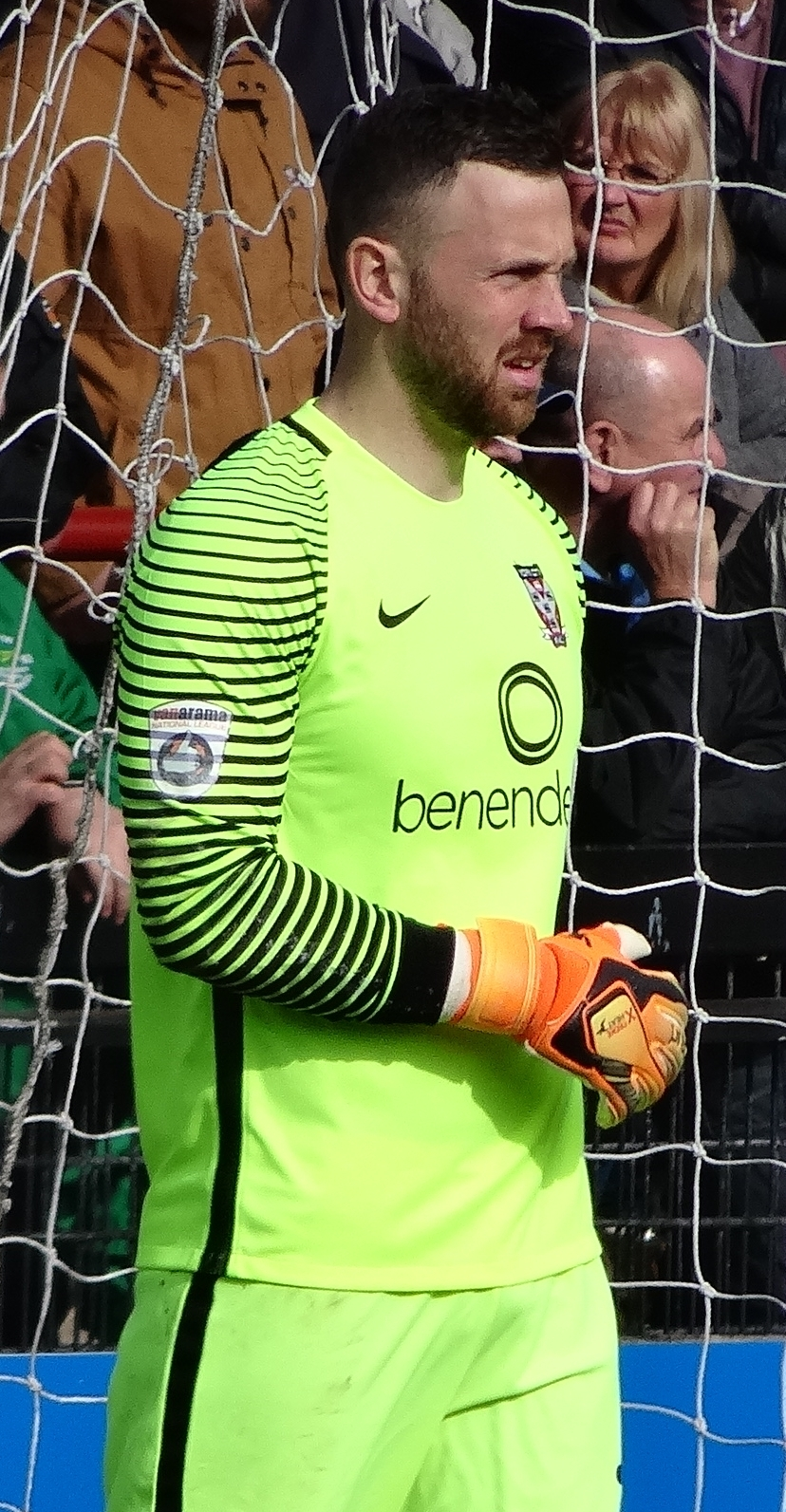 Scott Loach playing for York City against Braintree Town at Bootham Crescent, York on 1 April 2017